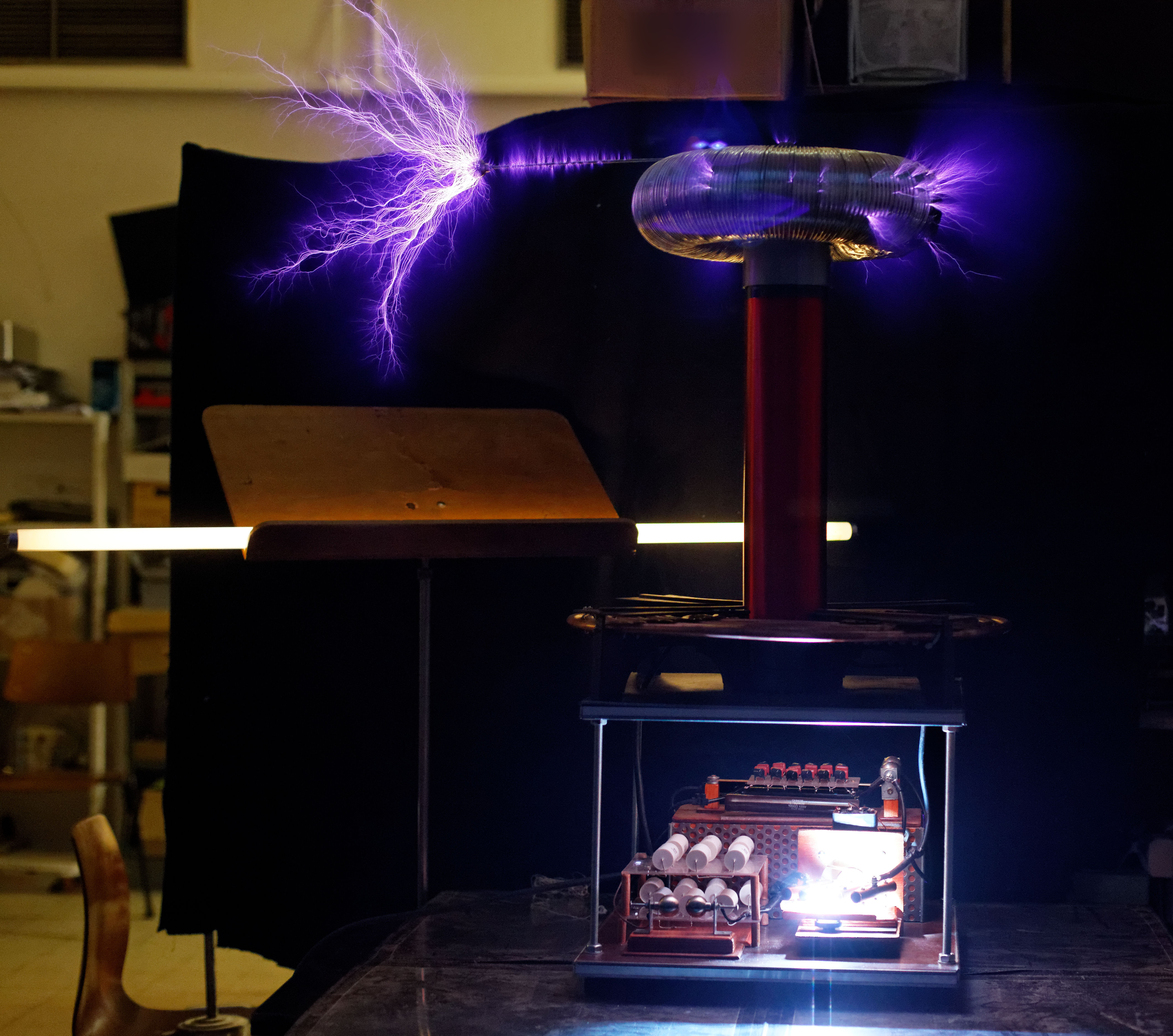 The "Zeus" homemade 225W-Tesla coil in operation. This image shows several effects of Tesla coil discharges. The toroidal high voltage terminal at top, made of a length of aluminum heating duct, has a sharp pointed metal wire projecting from it at left. A brush discharge emanates from the point of the wire (left). On the right side of the electrode corona discharges are visible. Behind the Tesla coil is a long fluorescent tube which glows due to the electric field of the coil. At bottom can be seen the capacitors in the coil's primary circuit, illuminated by the light of the spark gap. Shutter speed: 1s.